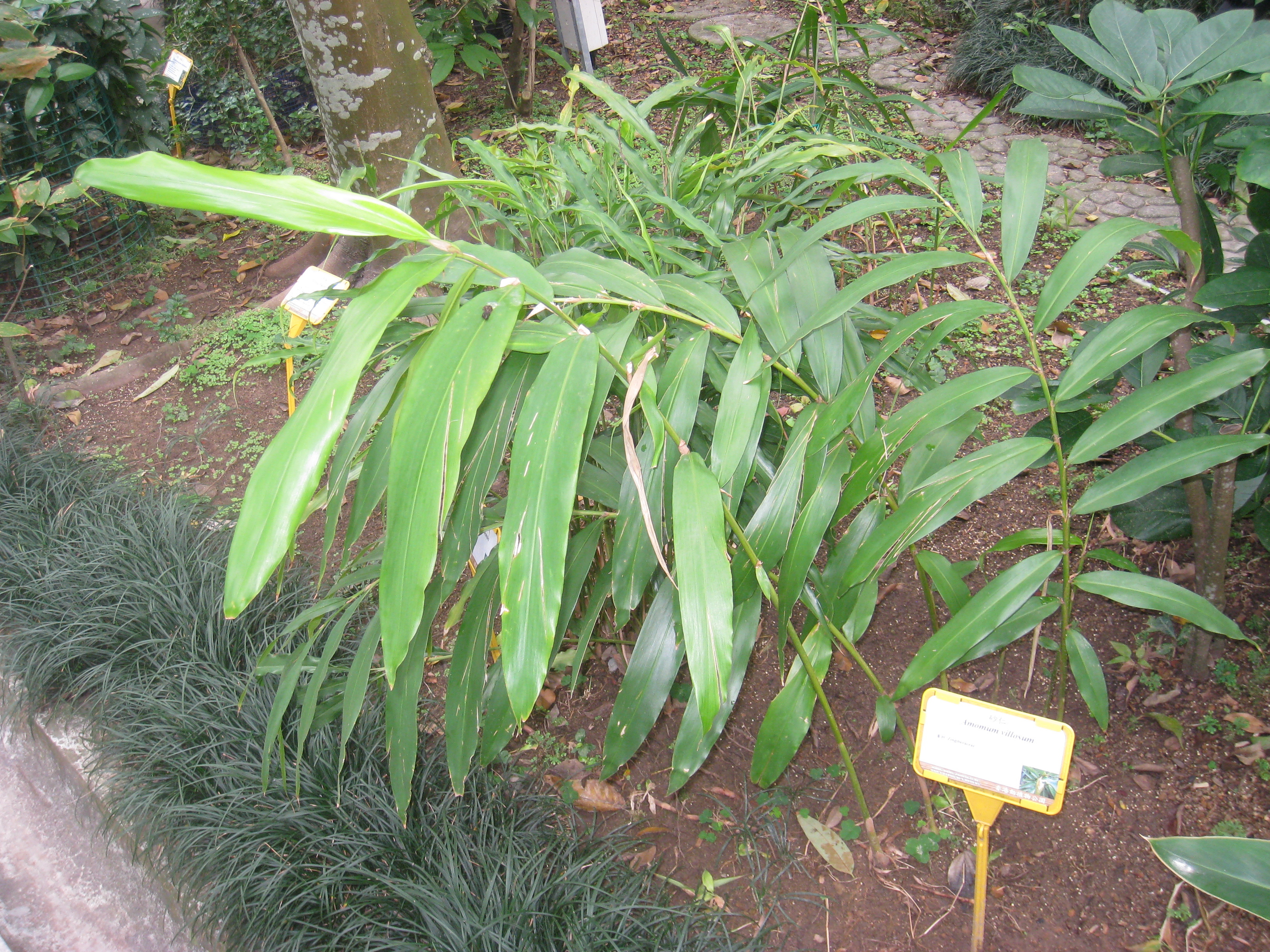 Amomum villosum. Plant specimen in the Hong Kong Zoological and Botanical Gardens, Hong Kong.